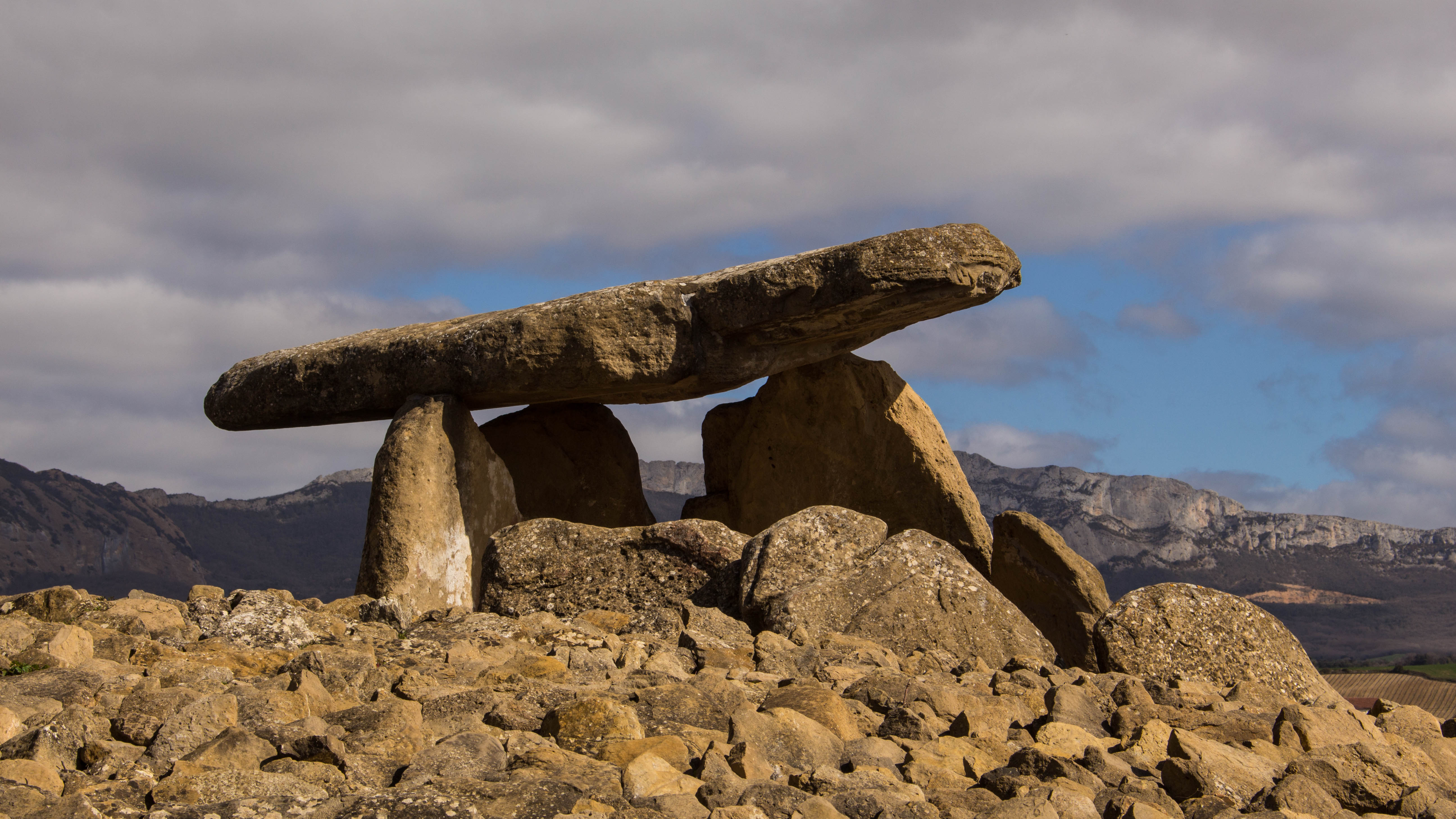 Picture of the famous dolmen of the Sorceress Txabola